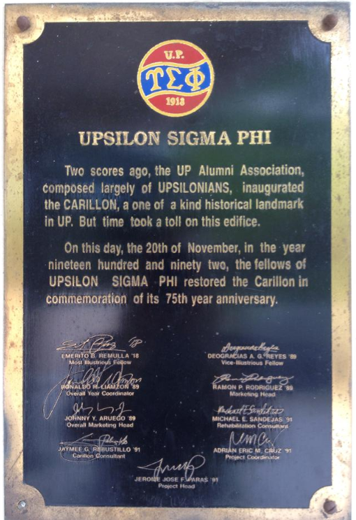 historical marker